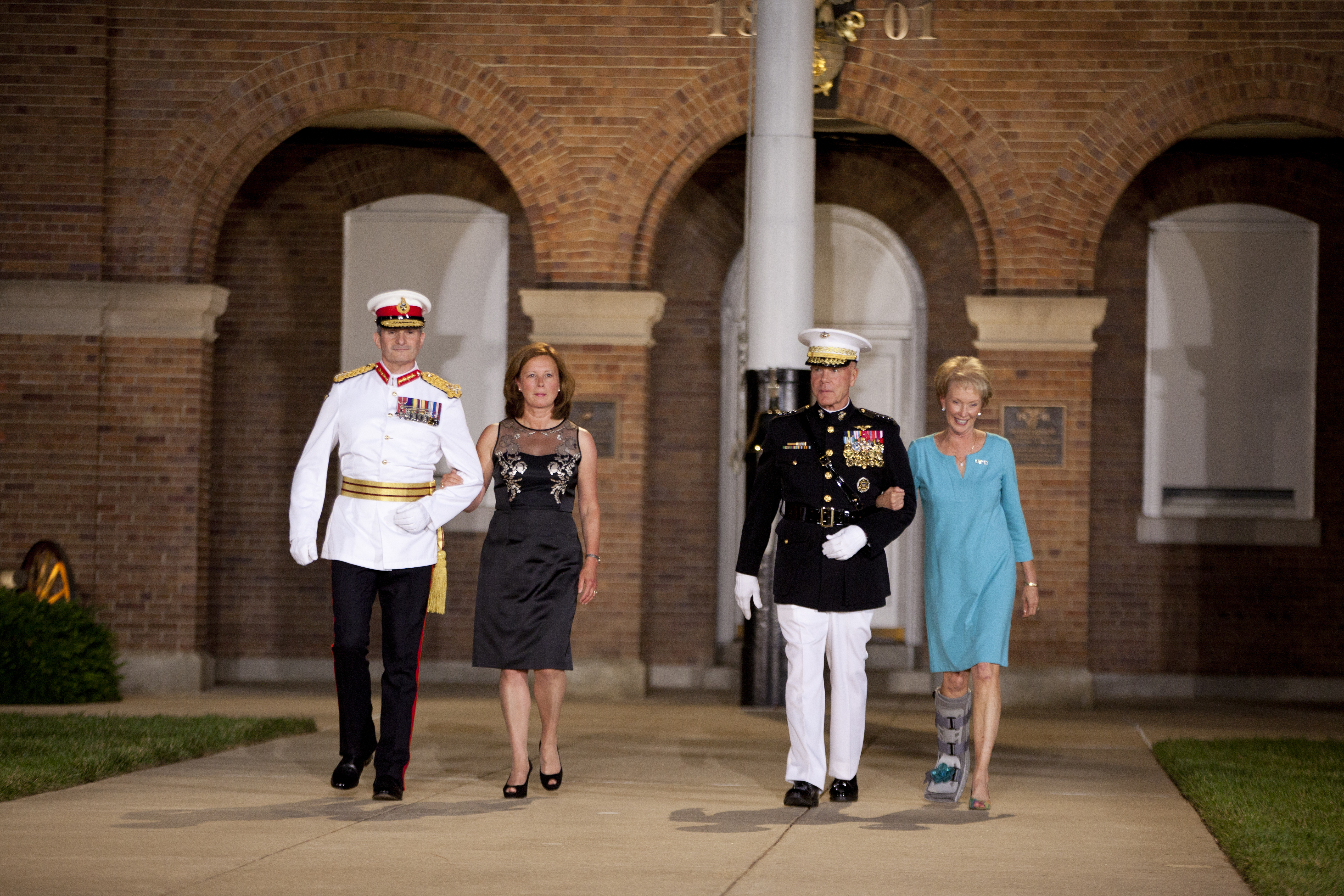 From left, the Evening Parade guest of honor, Commandant General of the British Royal Marines Maj. Gen. Martin Smith; Sue Smith; the Commandant of the U.S. Marine Corps, Gen. James F. Amos; and the First Lady of the Marine Corps, Bonnie Amos, walk down center walk at the start of the Evening Parade at Marine Barracks Washington in Washington, D.C., July 18, 2014. Maj. Gen. Smith is on his first trip to the United States since assuming the role of commandant of the British Royal Marines. (U.S. Marine Corps photo by Staff Sgt. Brian Lautenslager, USMC Combat Camera/Released)